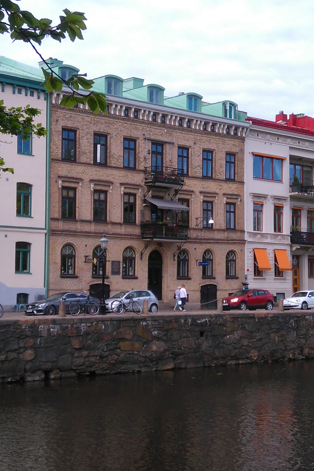 The house at Stora Nygatan 11 in Gothenburg, where Bedrich Smetana lived 1858-60.